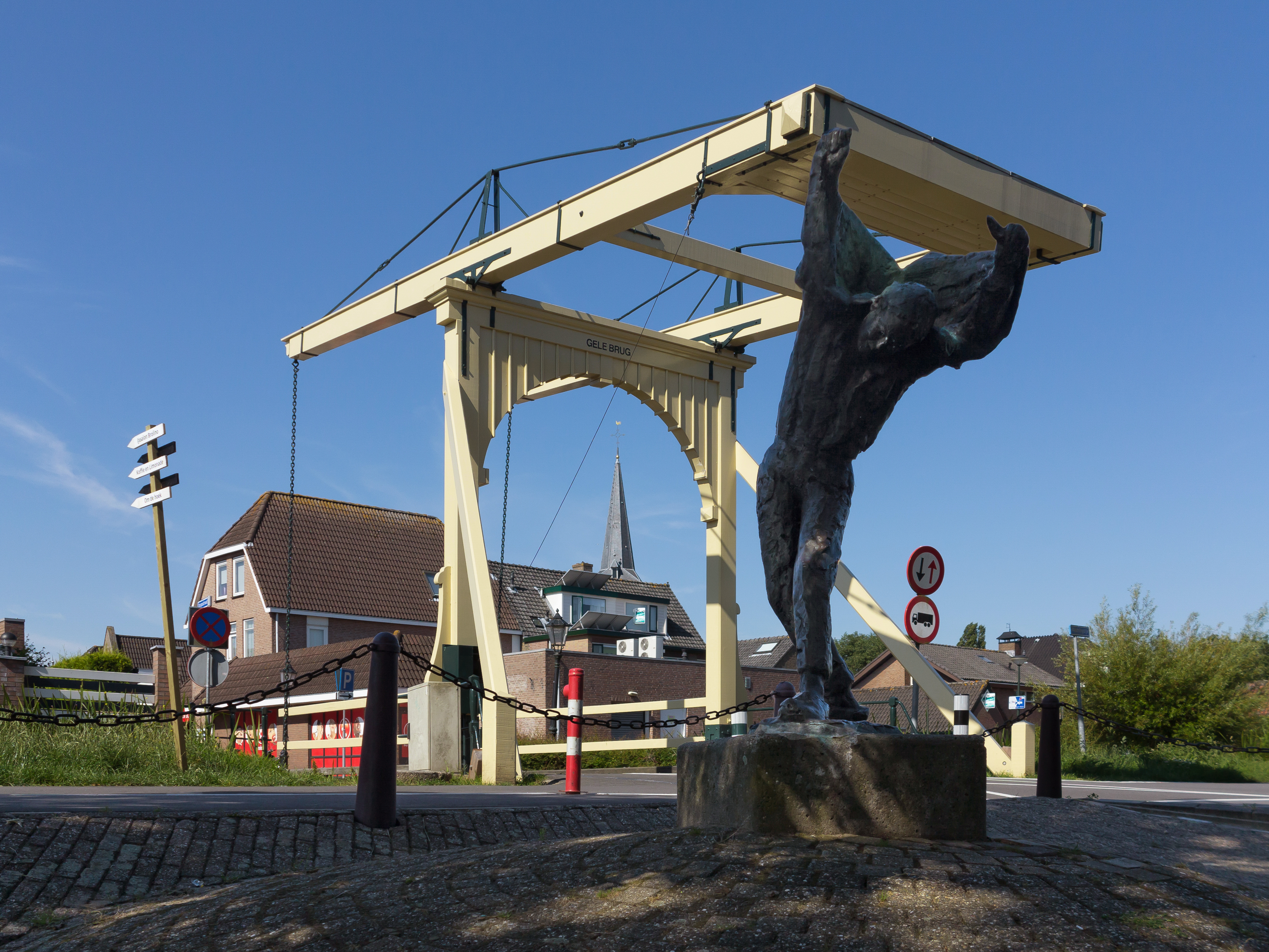 Nieuwerkerk aan den IJssel sculpture with draw bridge (de Gele Brug)